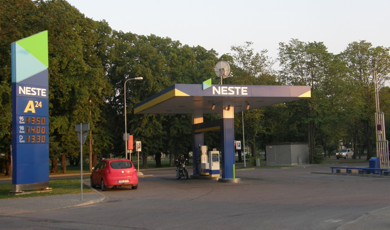 Neste petrol station in Tallinn, on the corner of Põhja puiestee and Soo tänav.